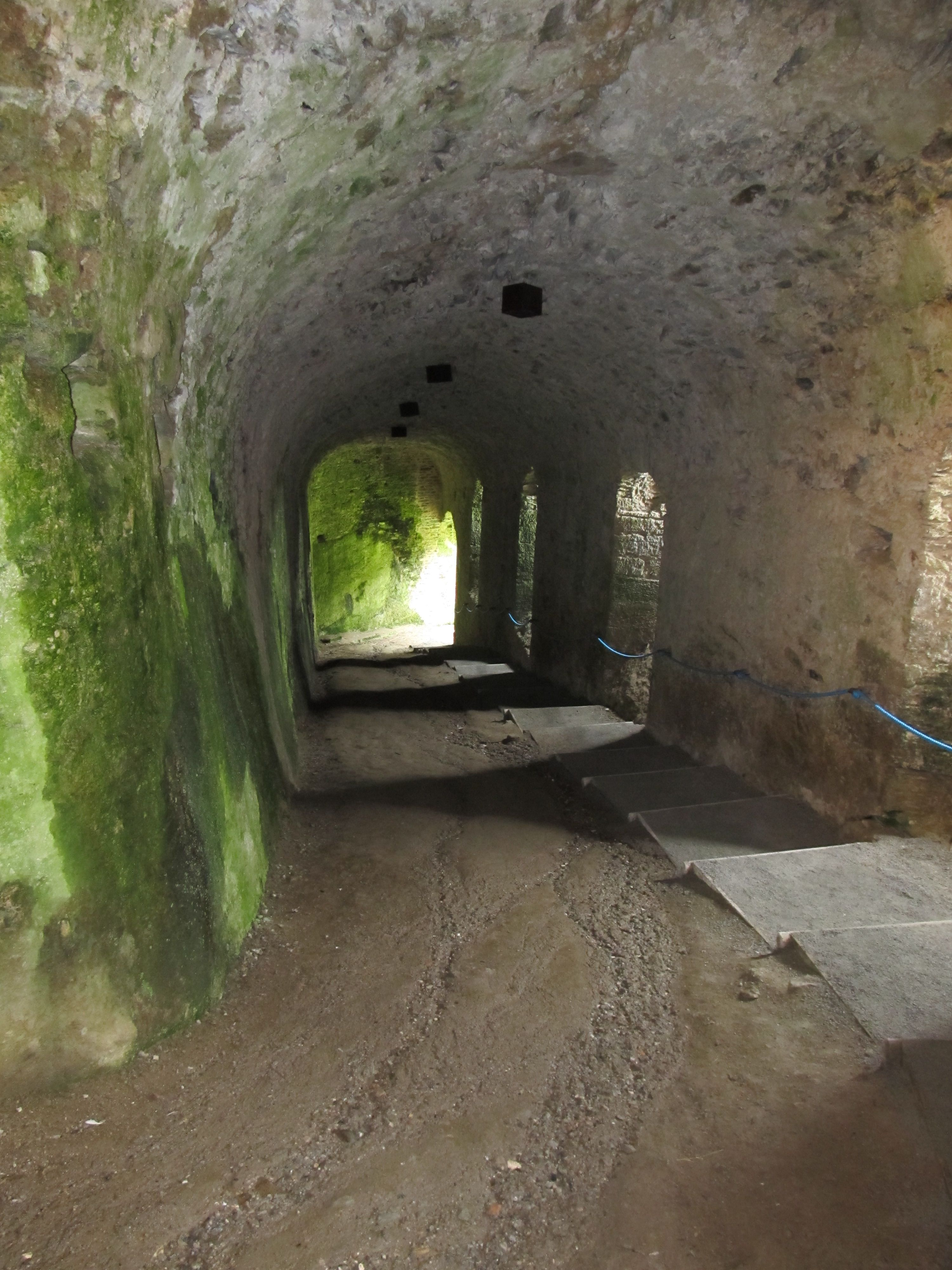 Apremont: knights vault